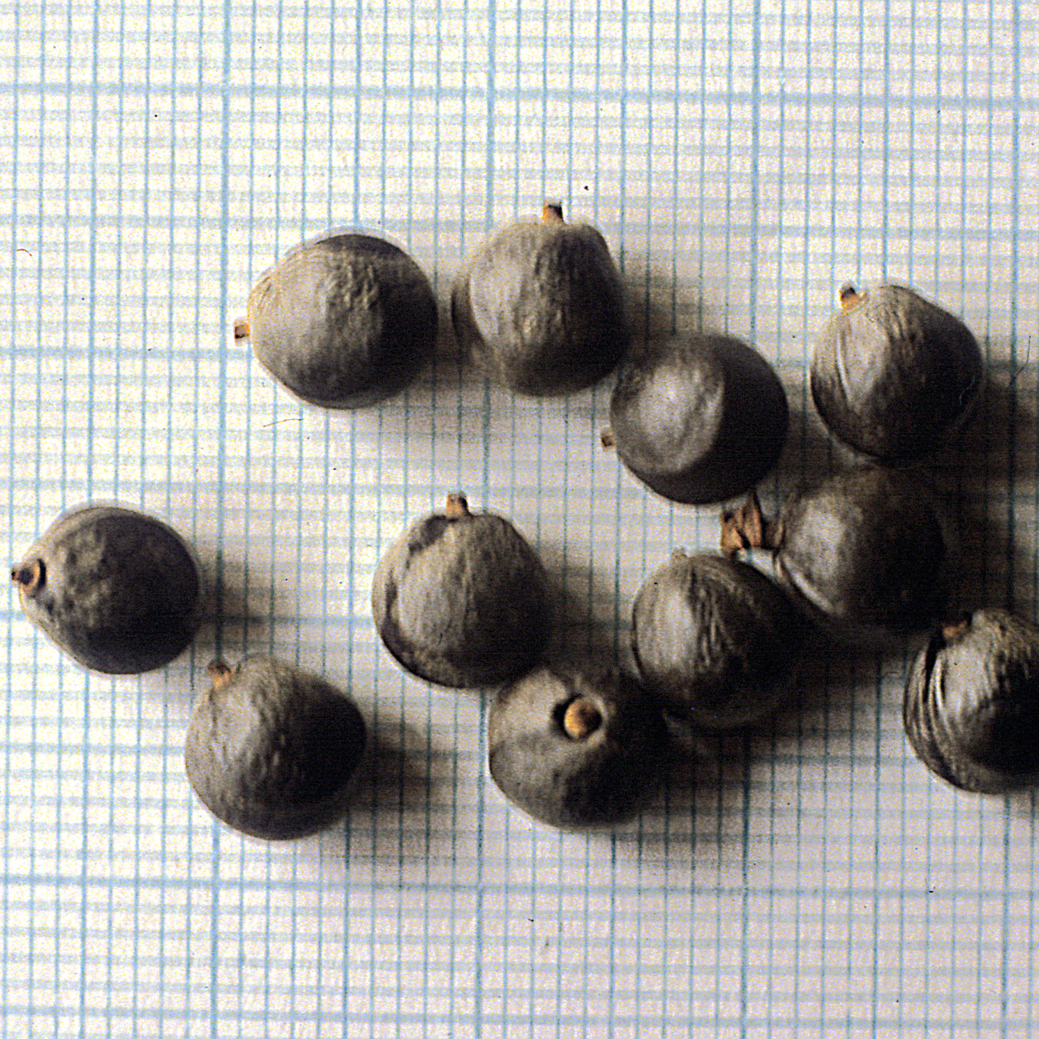 Seeds of Koelreuteria paniculata